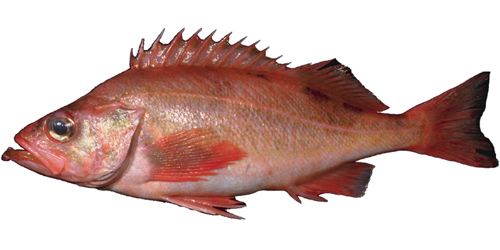 Pacific ocean perch, Sebastes alutus